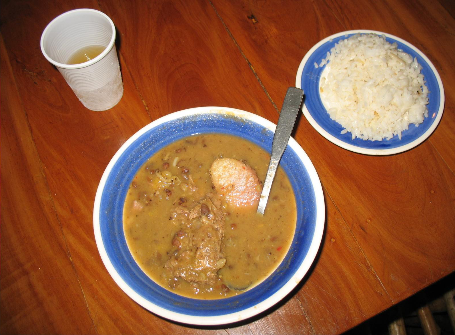 Sancocho de guandú con carne salá, Barranquilla.